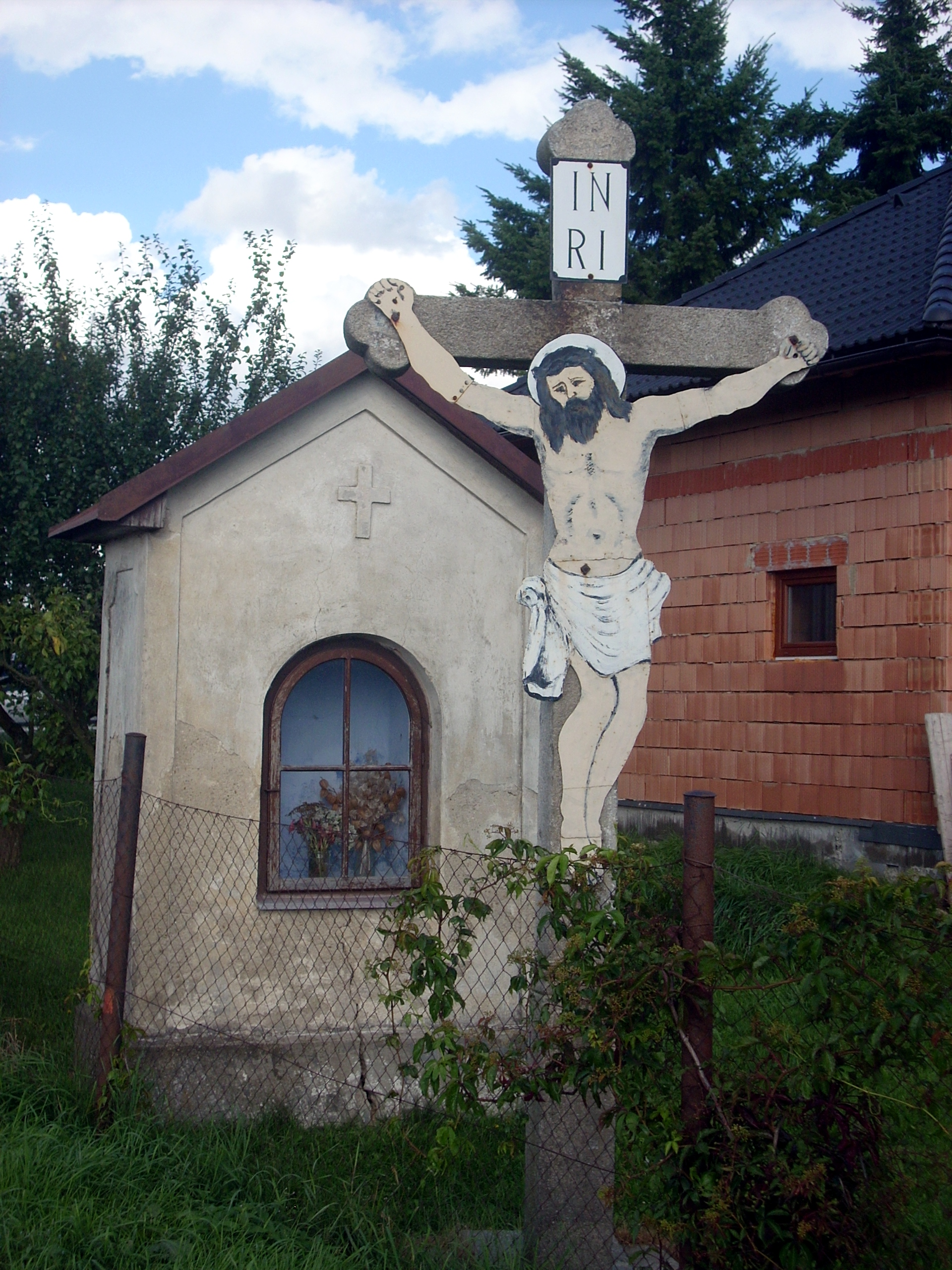 Měšín - little chapel with crucifix by road to Polna